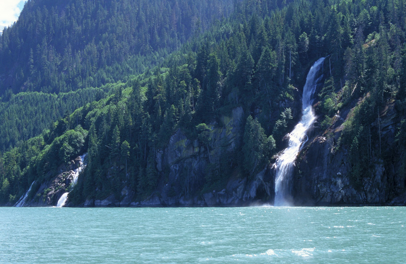 Photo taken by Wikipedia user Rs3 (Robert Steen III) at Toba Inlet, Desolation Sound, British Columbia, Canada , 2002.